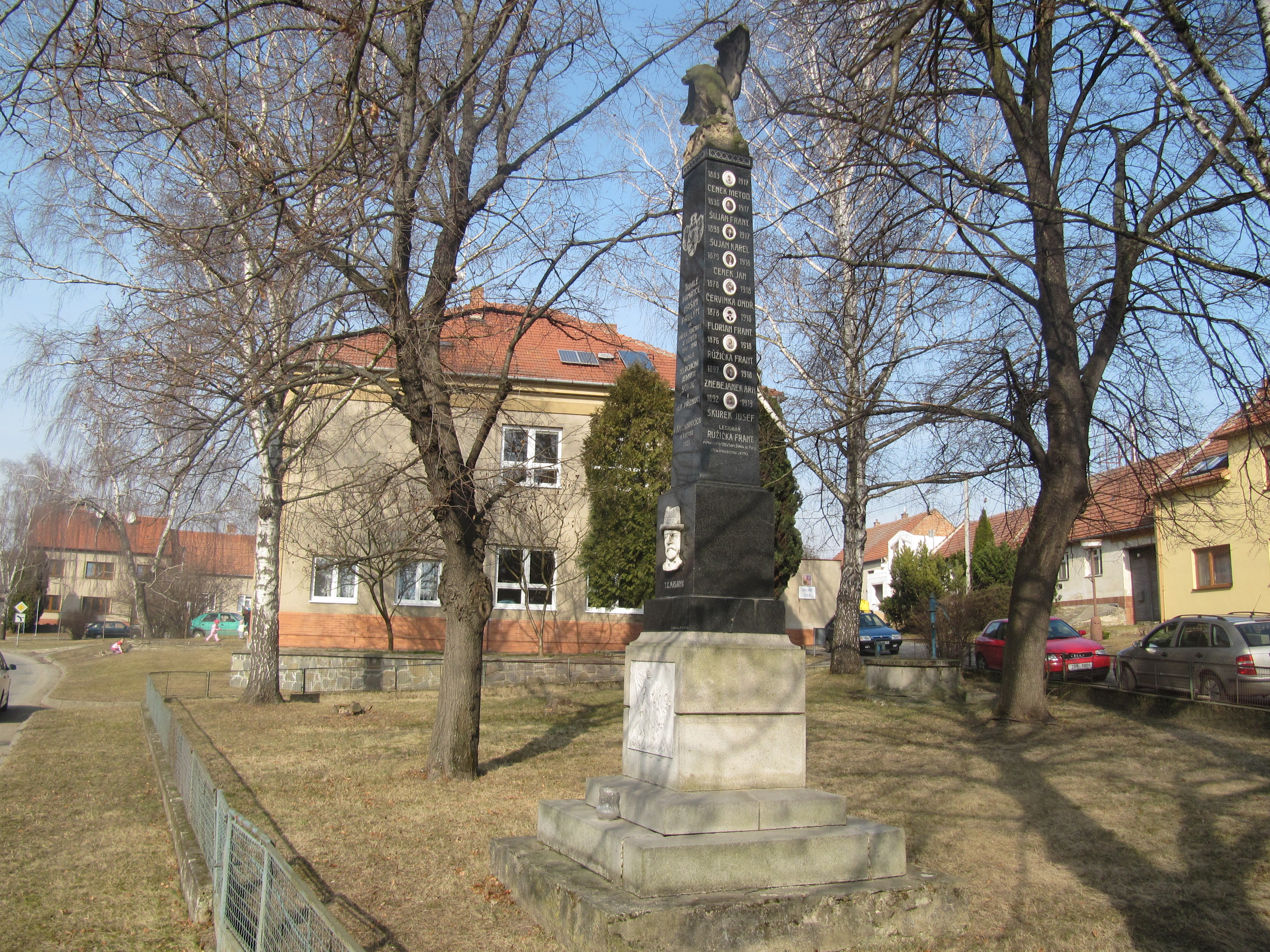 Křižanovice in Vyškov District, Czech Republic. Monument and school.